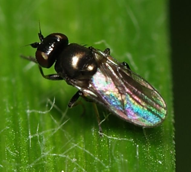 very likely Oscinella sp. (Chloropidae), from Cologne, Germany.